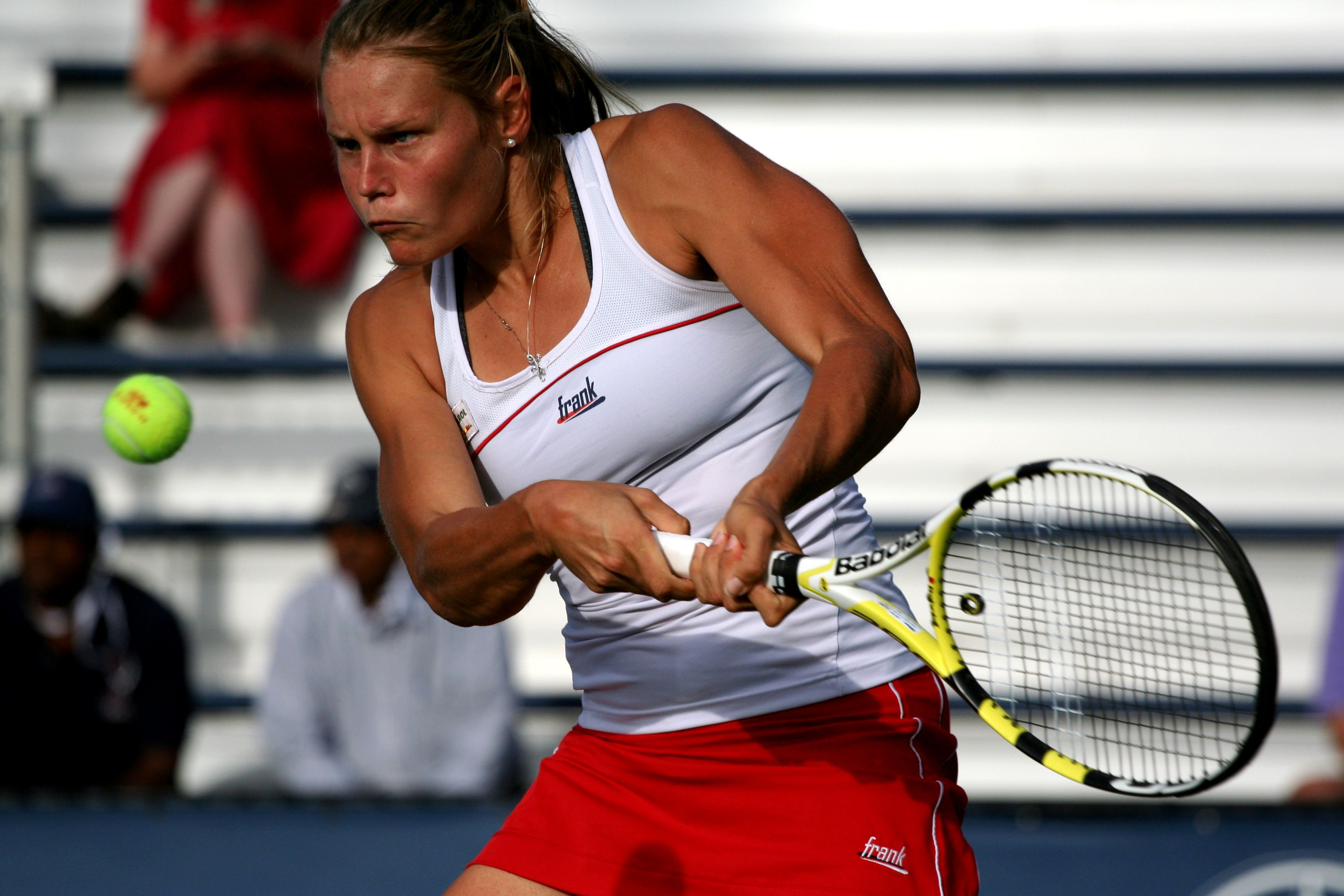 U.S. Open Monday, Aug. 29, 2011